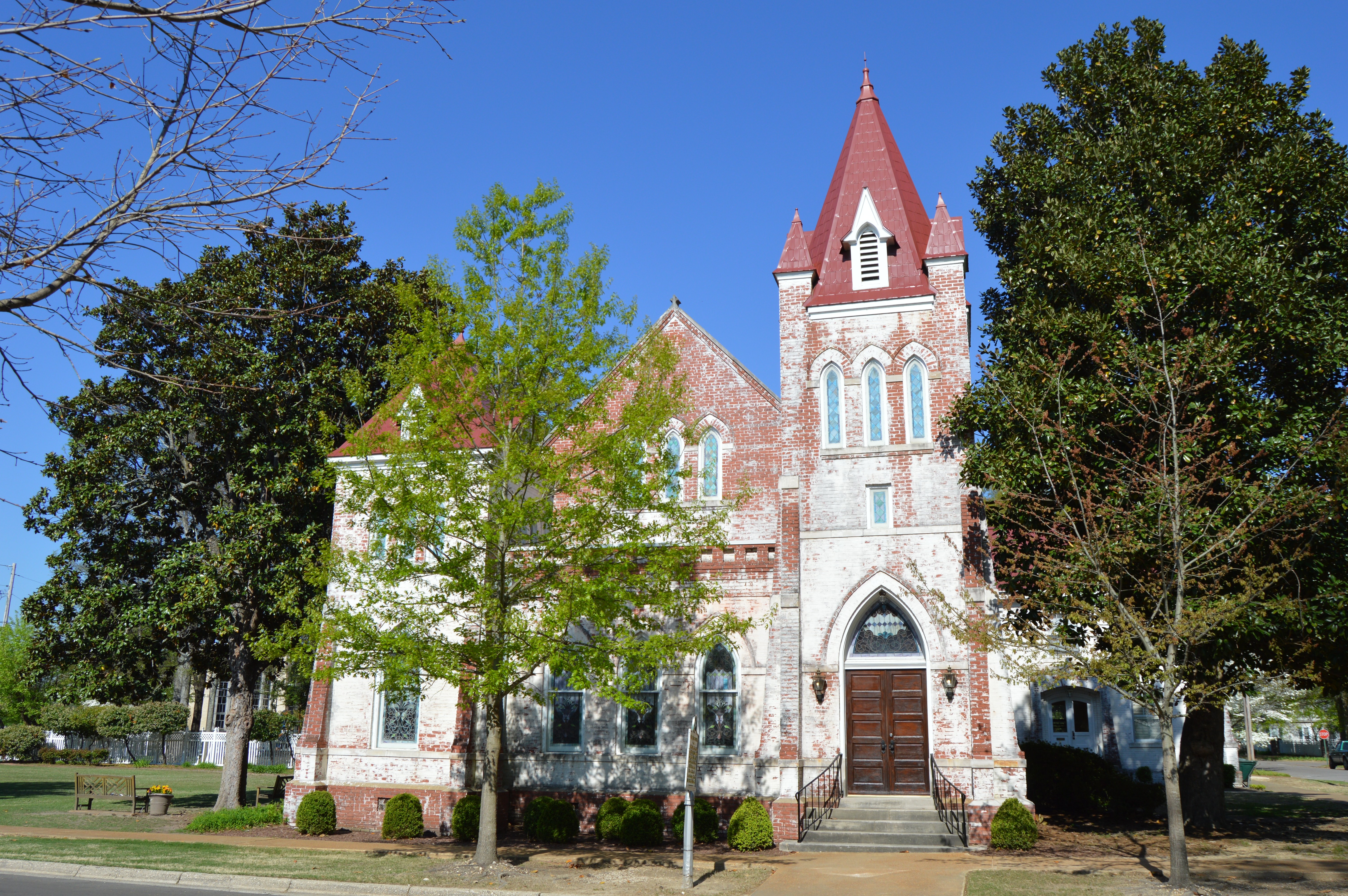 Front of the Fillmore Street Chapel (originally Cumberland Presbyterian, now Methodist), located at 901 N. Fillmore Street in Corinth, Mississippi, United States. Built in 1871, it is part of the Midtown Corinth Historic District, a historic district that is listed on the National Register of Historic Places.